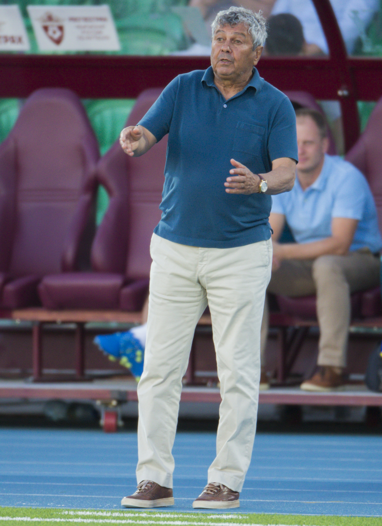 Mircea Lucescu